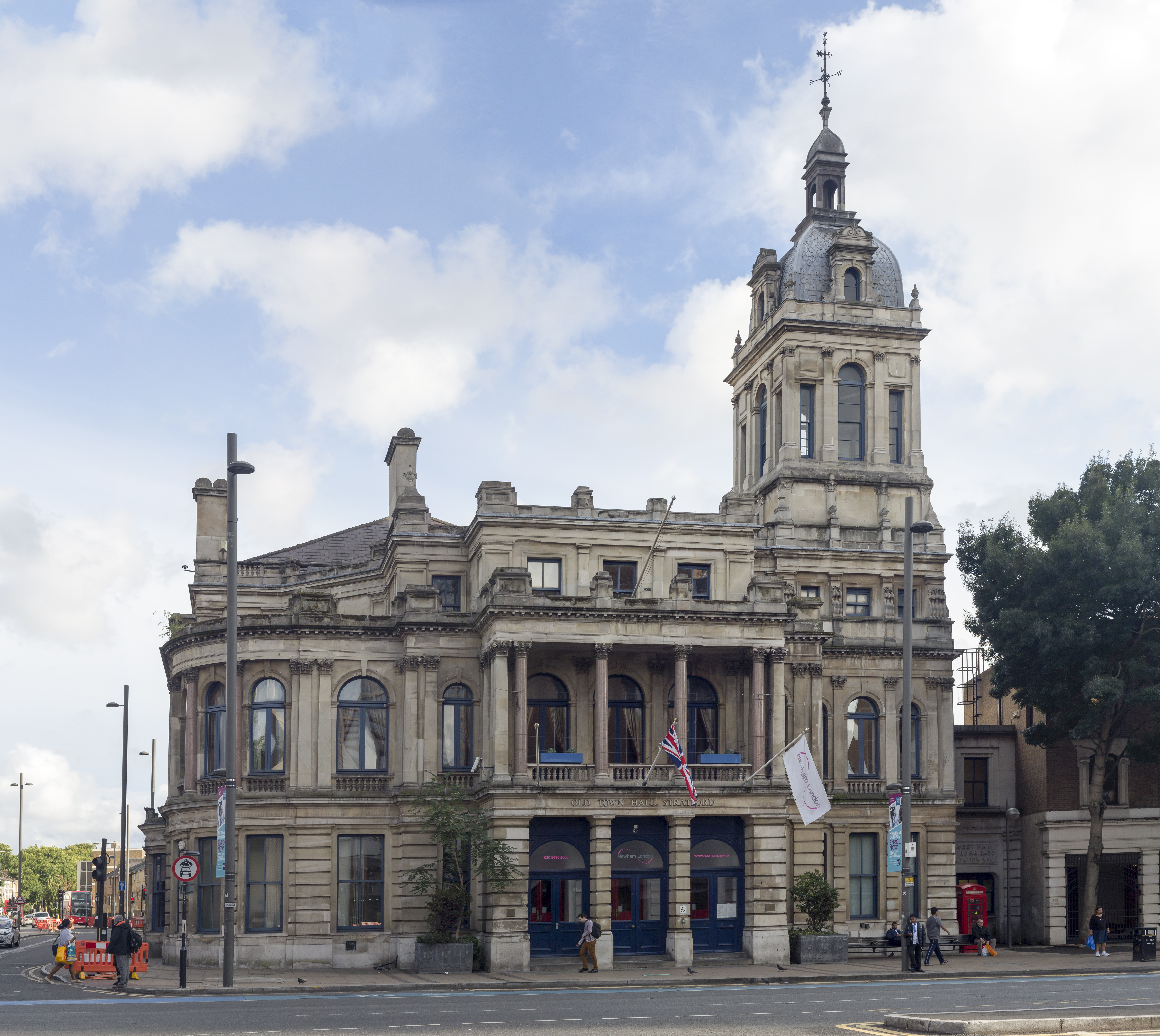 Education Offices, formerly West Ham Town Hall Wikidata has entry Q26356080 with data related to this item.